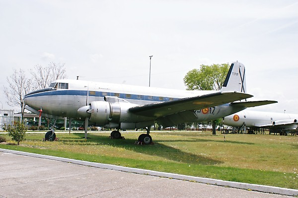 CASA 207C Azur of EdA. 4/10.